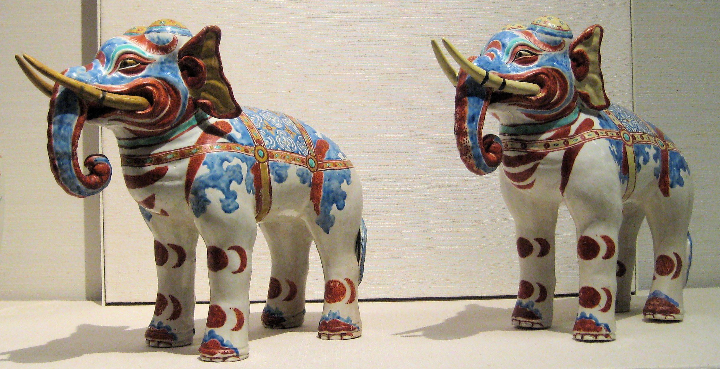 Kakiemon elephants from Japan, Edo period, late 17th century AD.